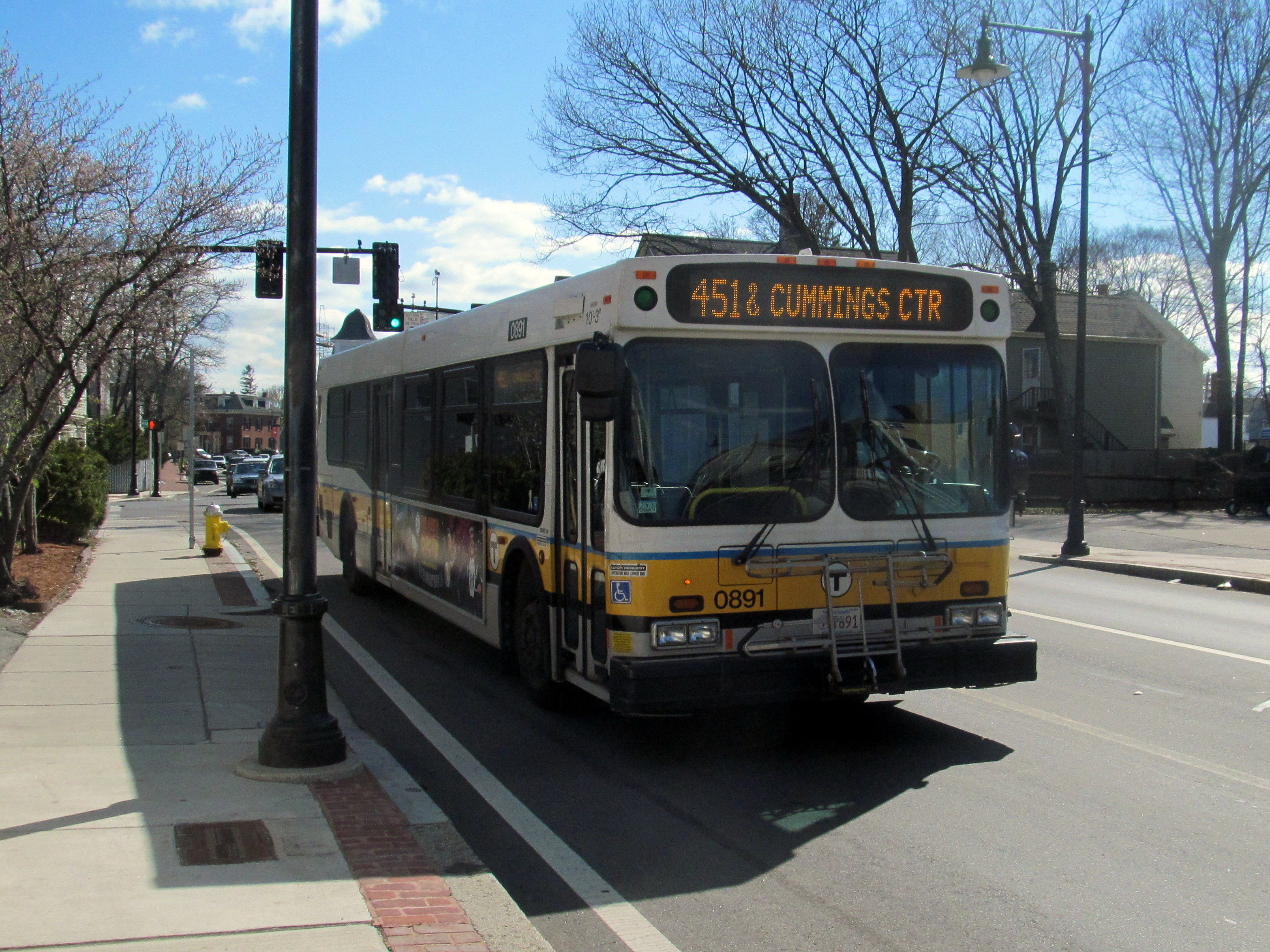 A northbound route 424 bus on Bridge Street (MA-1A) in Salem, Massachusetts in April 2015